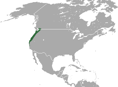 American Shrew Mole (Neurotrichus gibbsii) range, with national borders added